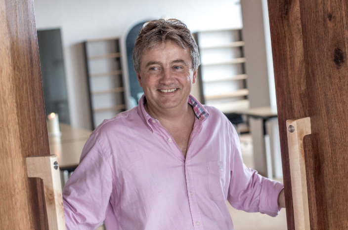 Snapshot of Timothy Jacob Jensen in Shanghai from 2012